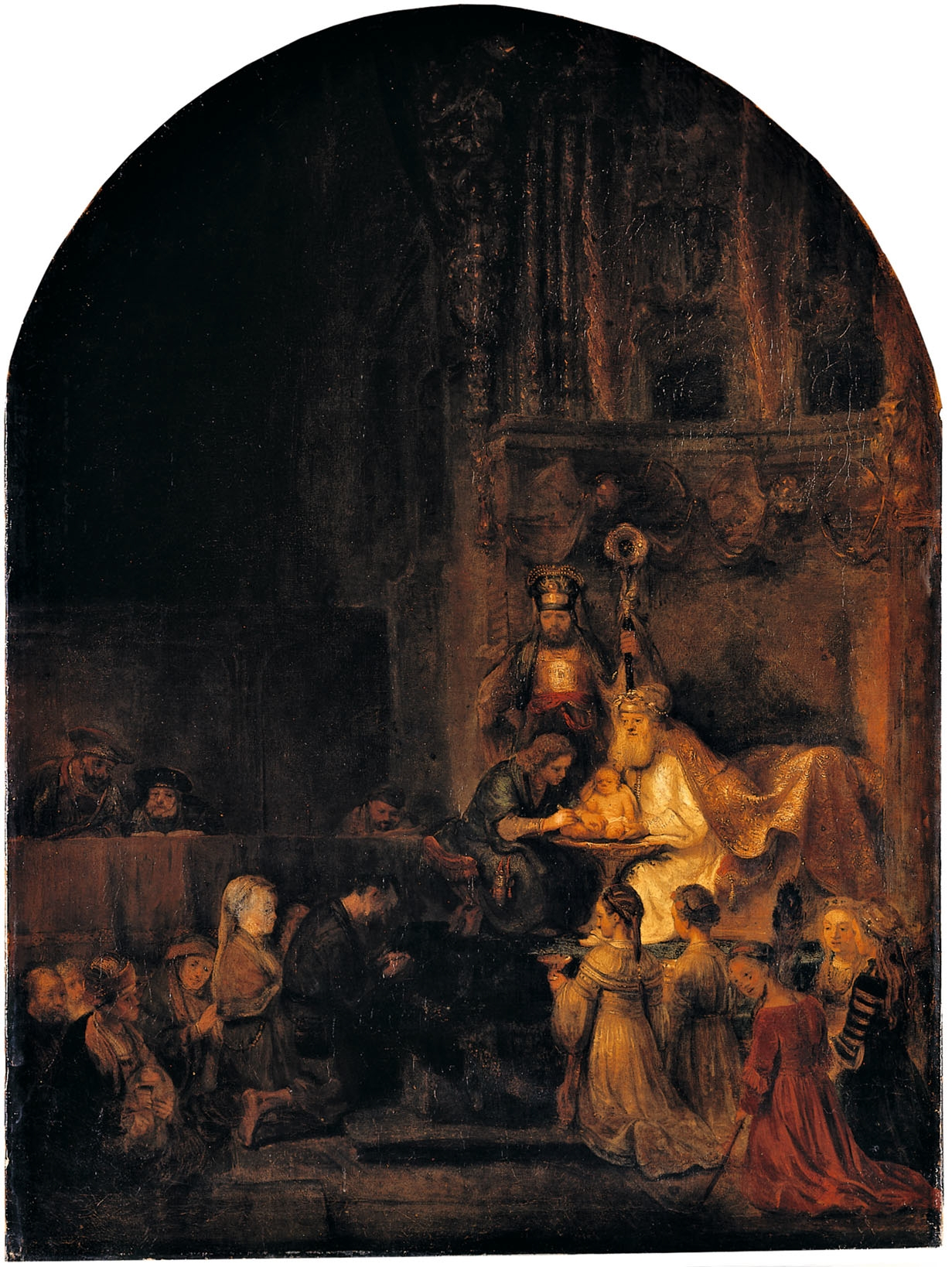 Circumcision of Christ, faithful copy from the studio of Rembrandt after a lost original, 1646 or later, Herzog Anton Ulrich-Museum, Braunschweig, Germany. Six other paintings from the seven-part cycle of Christ are kept as originals in the Alte Pinakothek in Munich, the seventh original was lost by 1756.